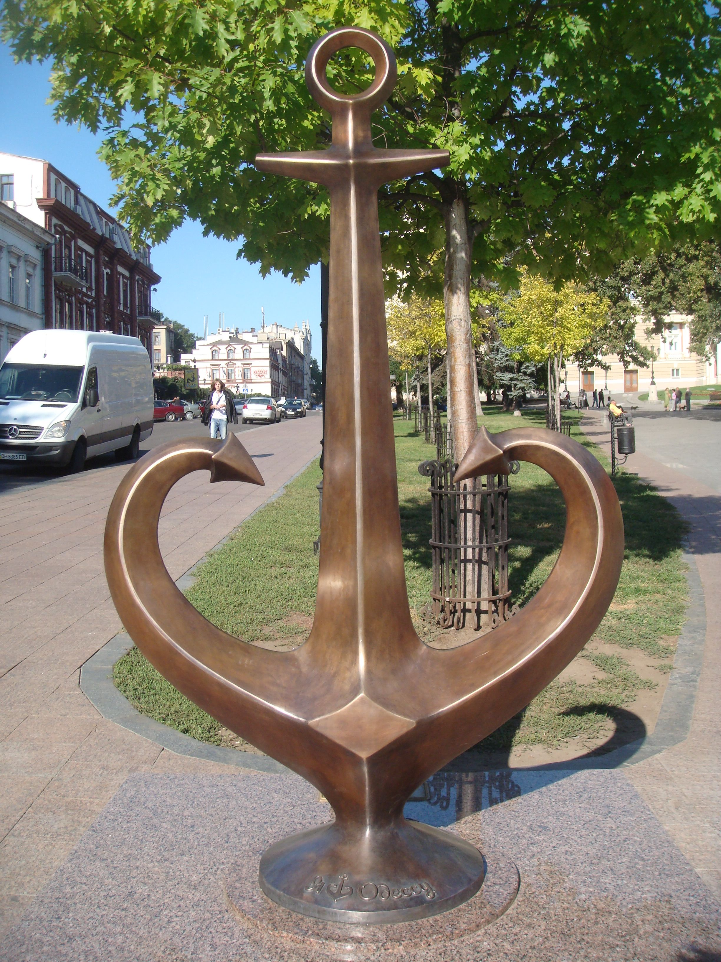 Bronze monument dedicated to tourist logo of Odessa, erected in Odessa crossing Pushkinskaya street Lanzheronovskaya street, on September the 2nd 2012. Front view